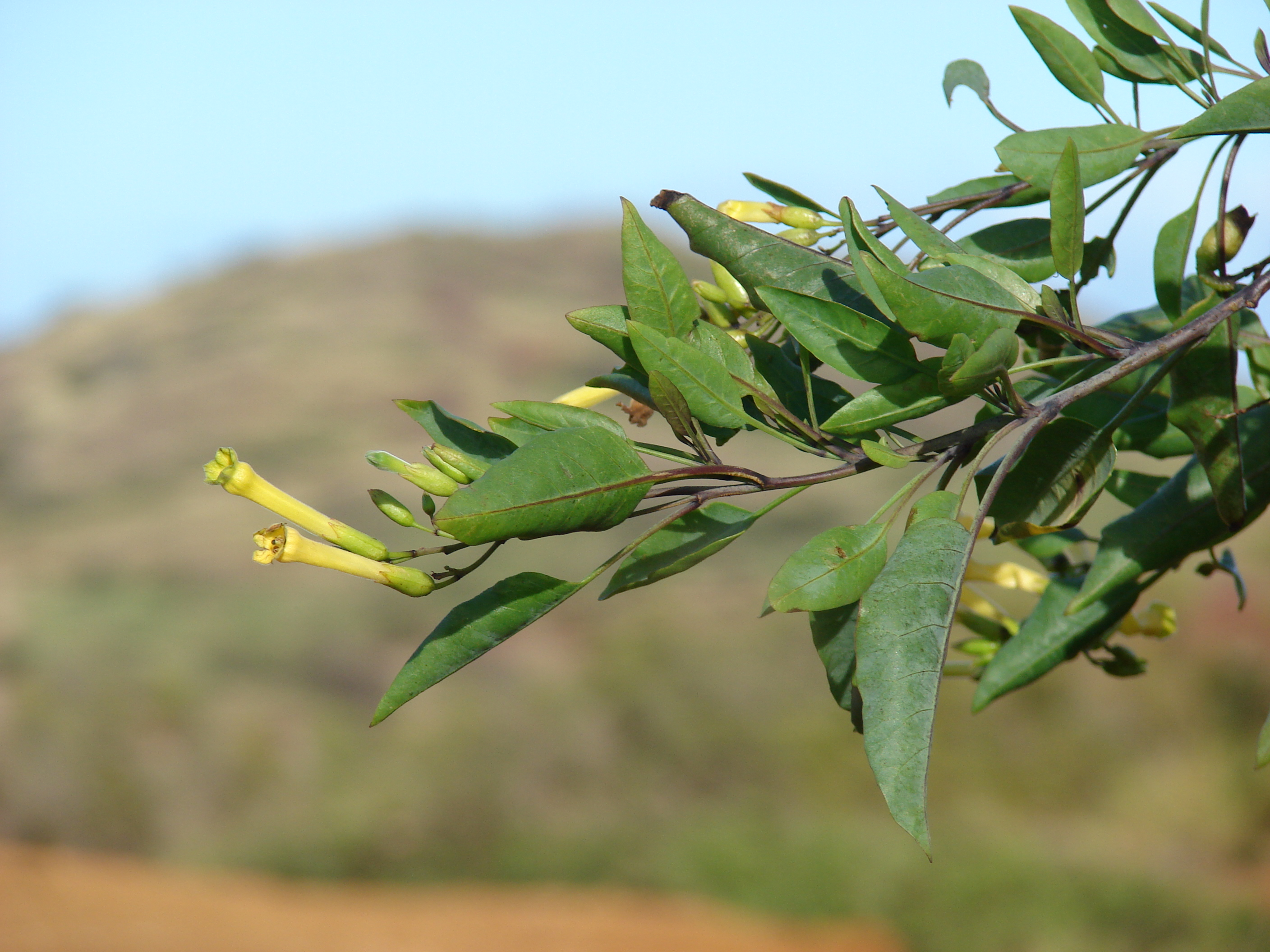 Nicotiana glauca (flower and leaves). Location: Kahoolawe, LZ1